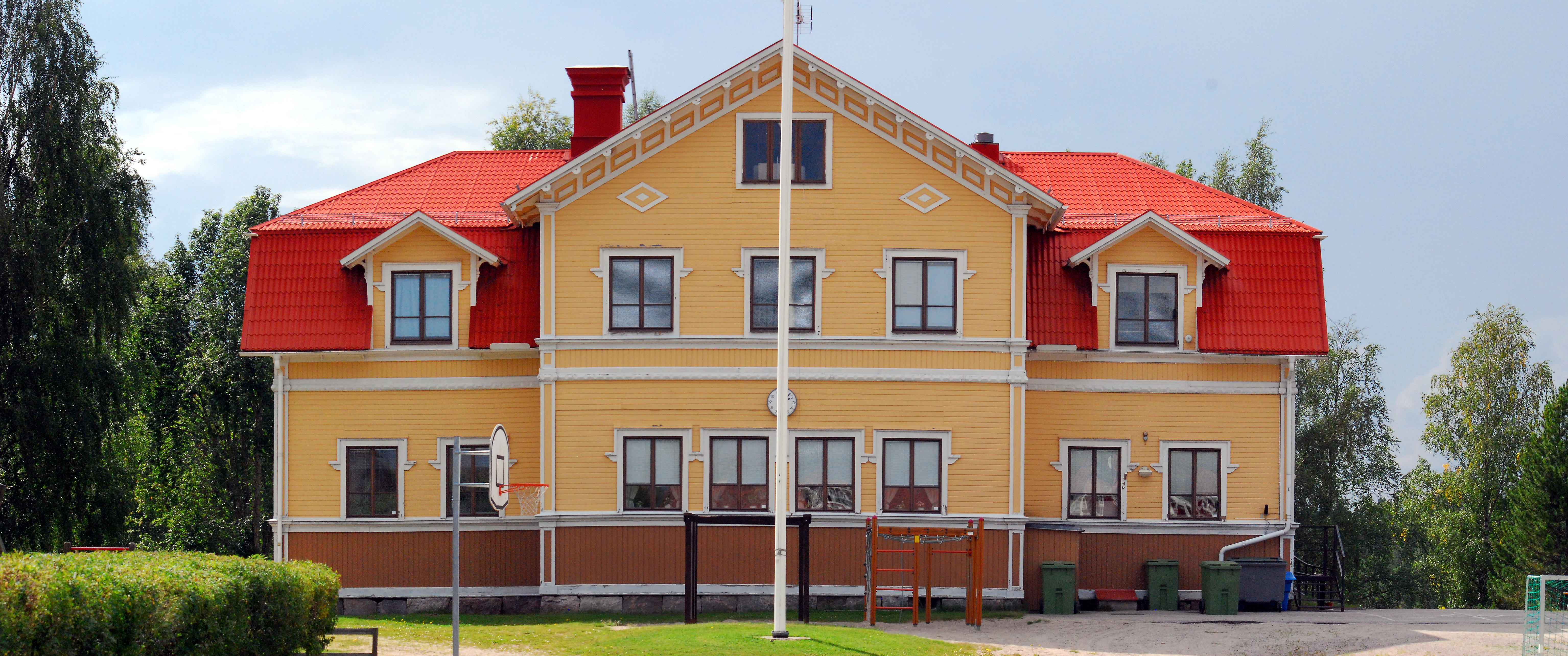 Voxnabruk school in Voxnabruk, Hälsingland, Sweden